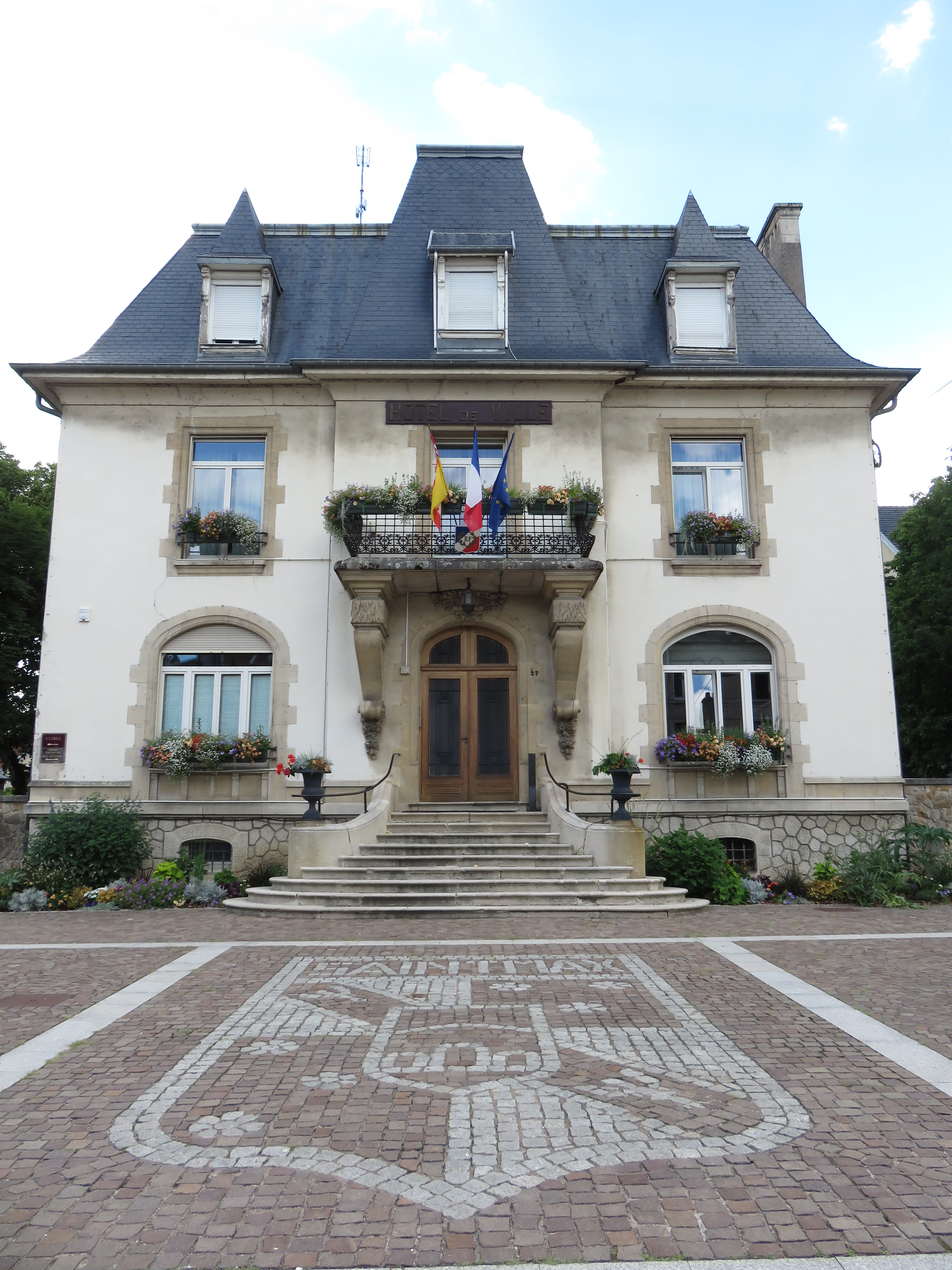 City Hall of Saint-Max, France in 2018